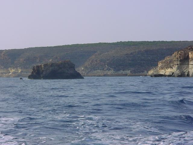 Coastline of Lampedusa